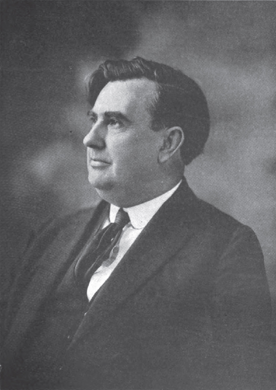 Kentcuky Senator M. M. Logan